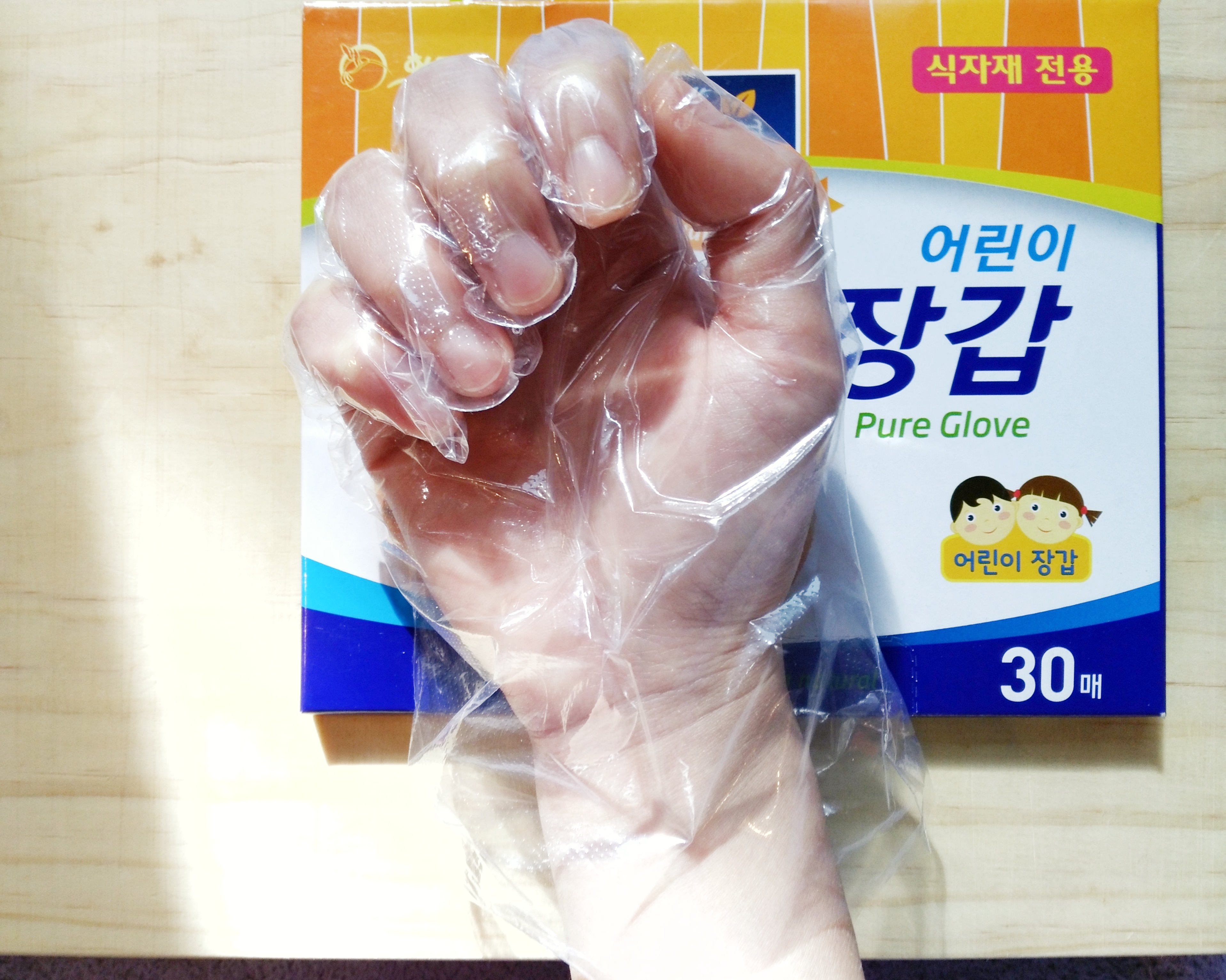 disposable clear pastic gloves for kids